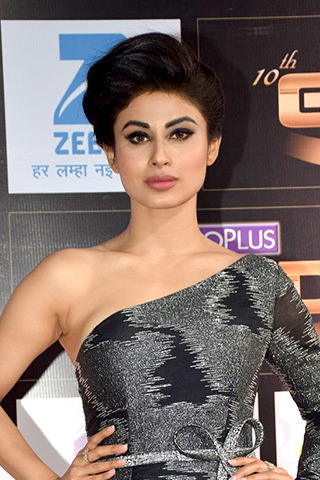 Mouni Roy grace the 10th Gold Awards 2017